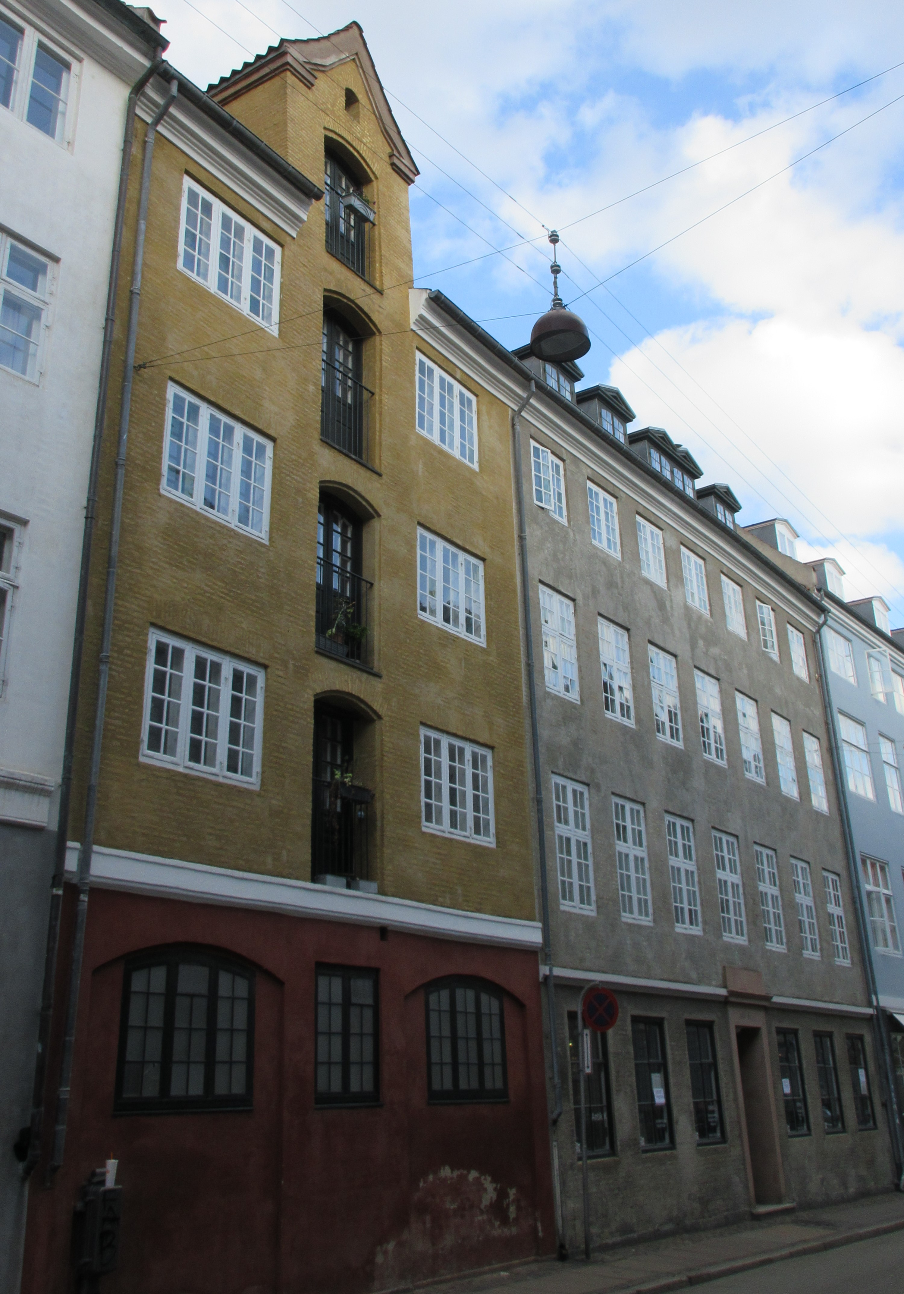 Knabrostræde 11-13, part of the property at Brolæggerstræde 5, in Copenhagen, Denmark